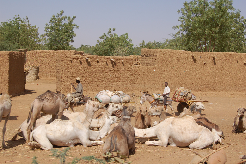 Along the highway in Diffa Region. Banco houses in the background, camels rest, while boys drive mule carts.